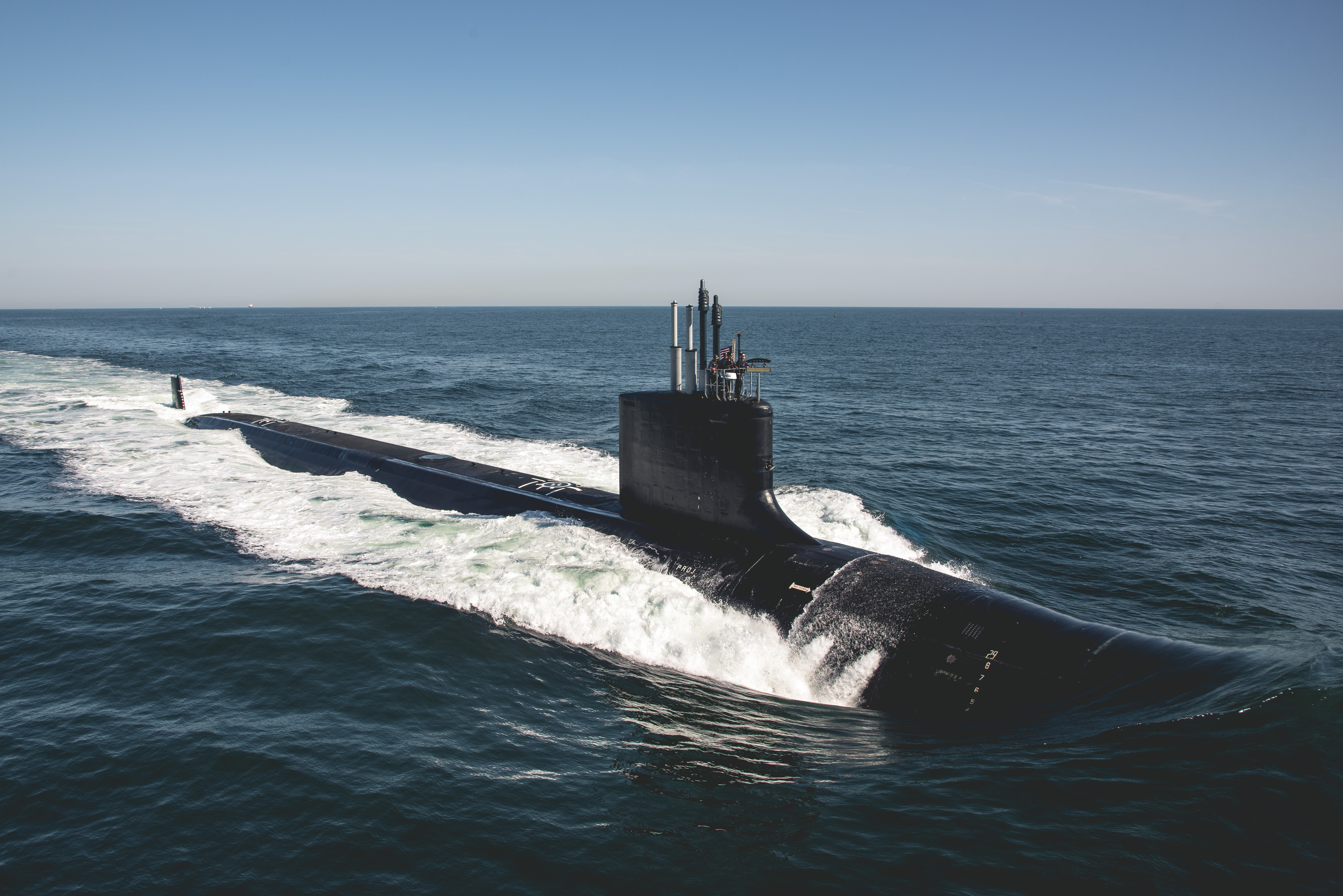 190831-N-N0101-160 ATLANTIC OCEAN (Aug. 31, 2019) The Virginia-class attack submarine USS Delaware (SSN 791) conducts Bravo sea trials in the Atlantic Ocean. (U.S. Navy photo courtesy of HII by Ashley Cowan/Released)